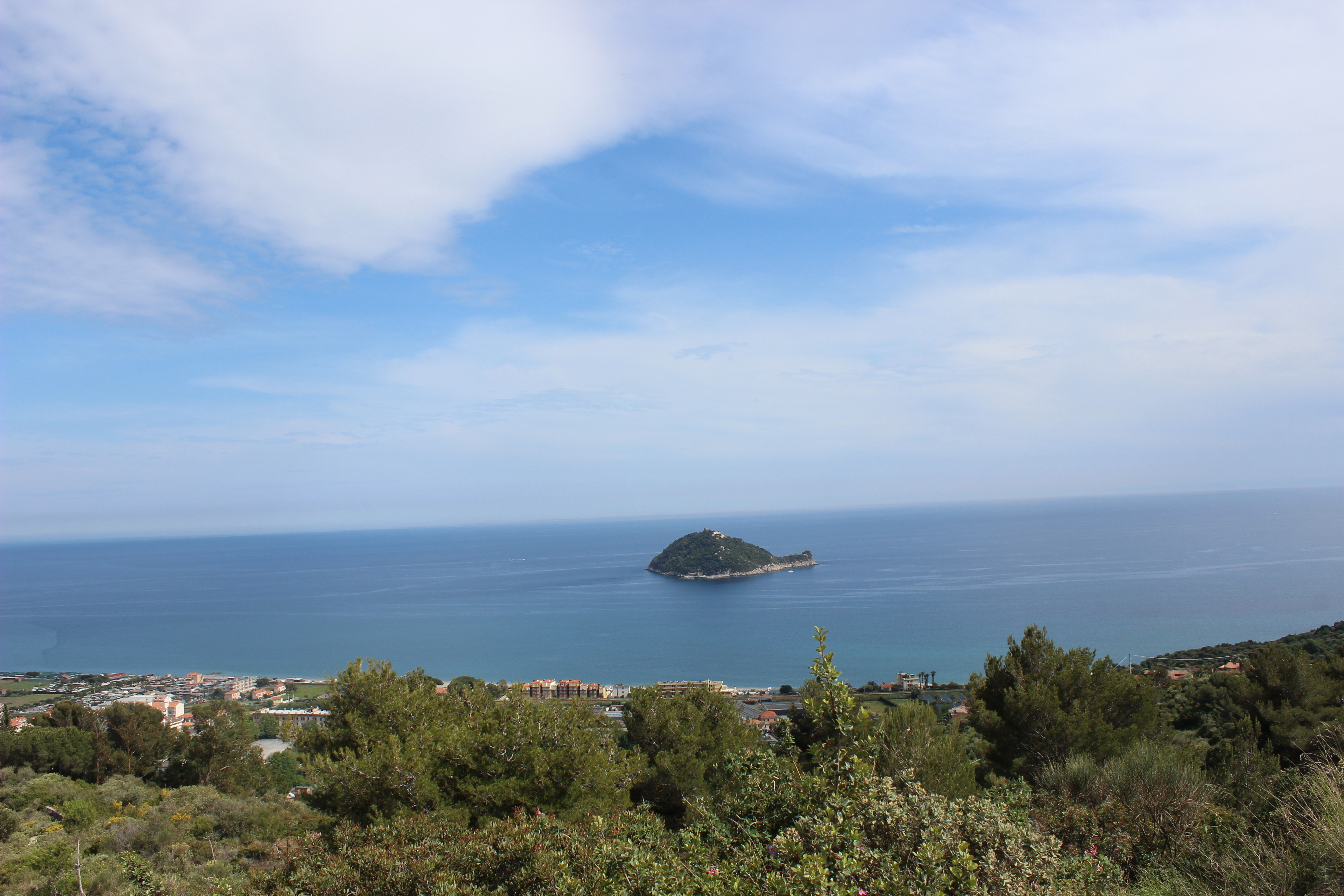 Gallinara Island, view by the Mountain of the Vadin's quartier.